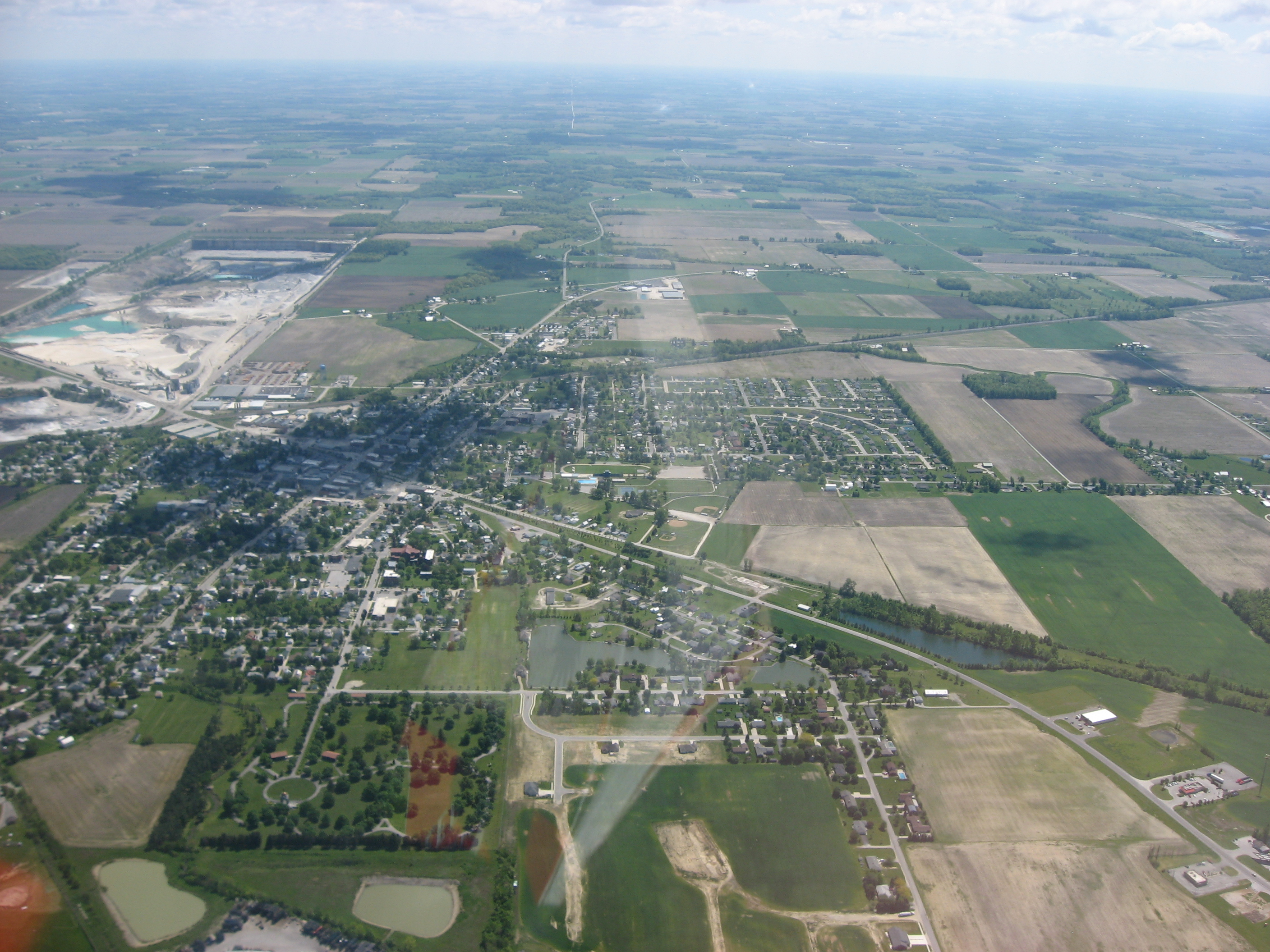 Aerial view of Carey, a village in Wyandot County, Ohio, United States. Picture taken from a Diamond Eclipse light airplane at an altitude of 3,500 feet MSL and a bearing of approximately 272º.